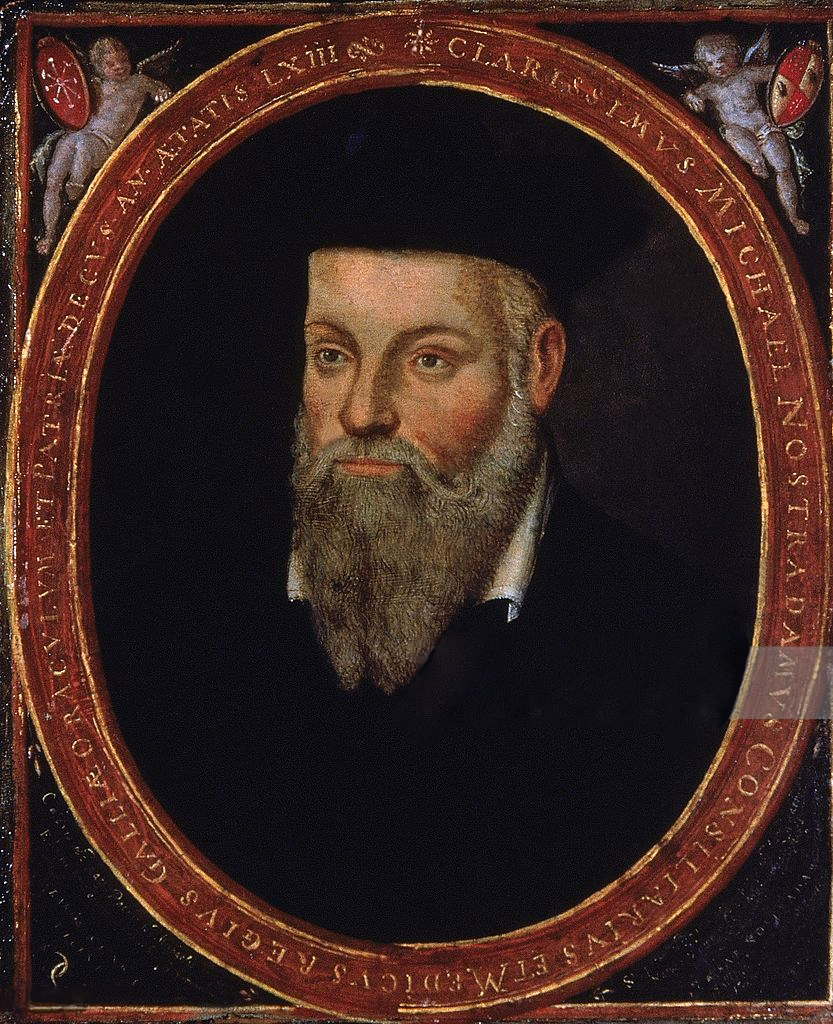 The Portrait of Michel de Nostredame (Nostradamus), a French Renaissance Medicine & Astrologer, painted by his son César de Nostredame (1553-1630?)